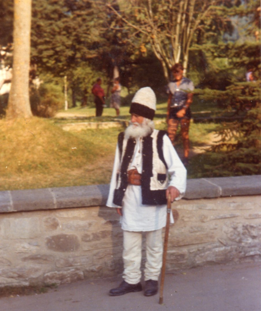 Old man with traditional moldovan clothes in Chișinău